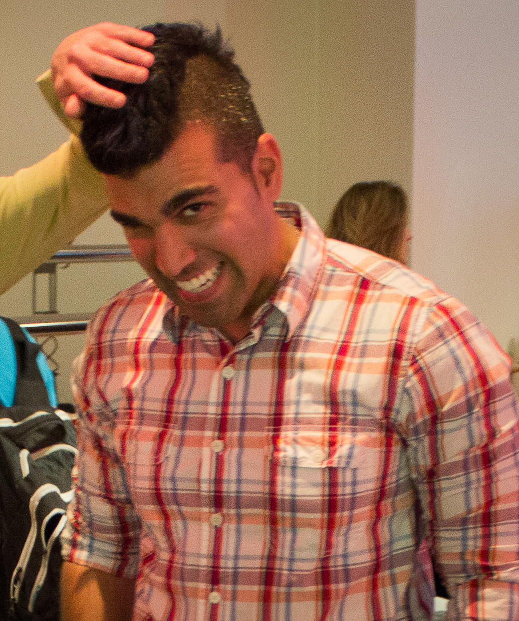 Sarah Worthy and Bobak Ferdowsi at SpaceUp Houston on November 2, 2012.